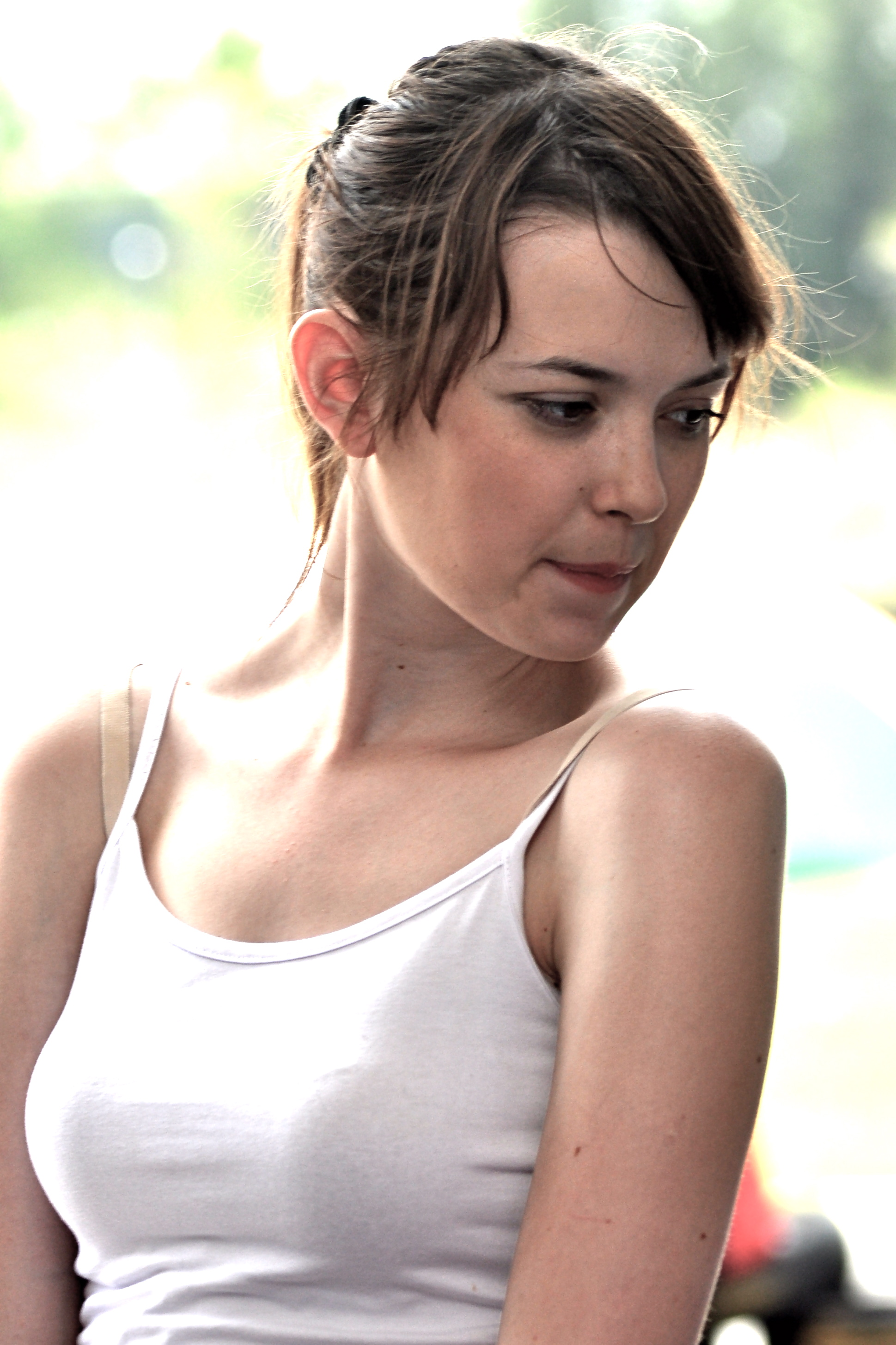 A young woman wearing a white top and looking to her left.